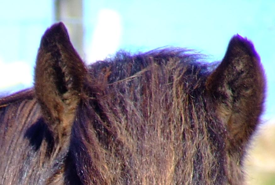 An example of purple fringing